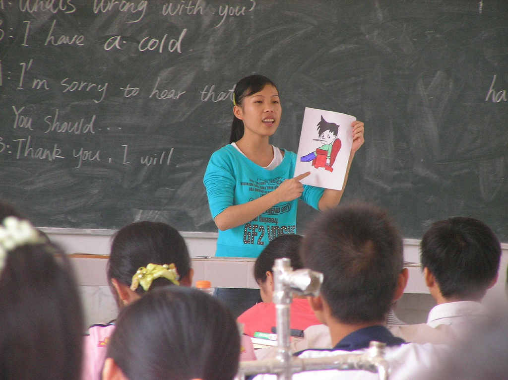 Student teacher in China teaching children English.